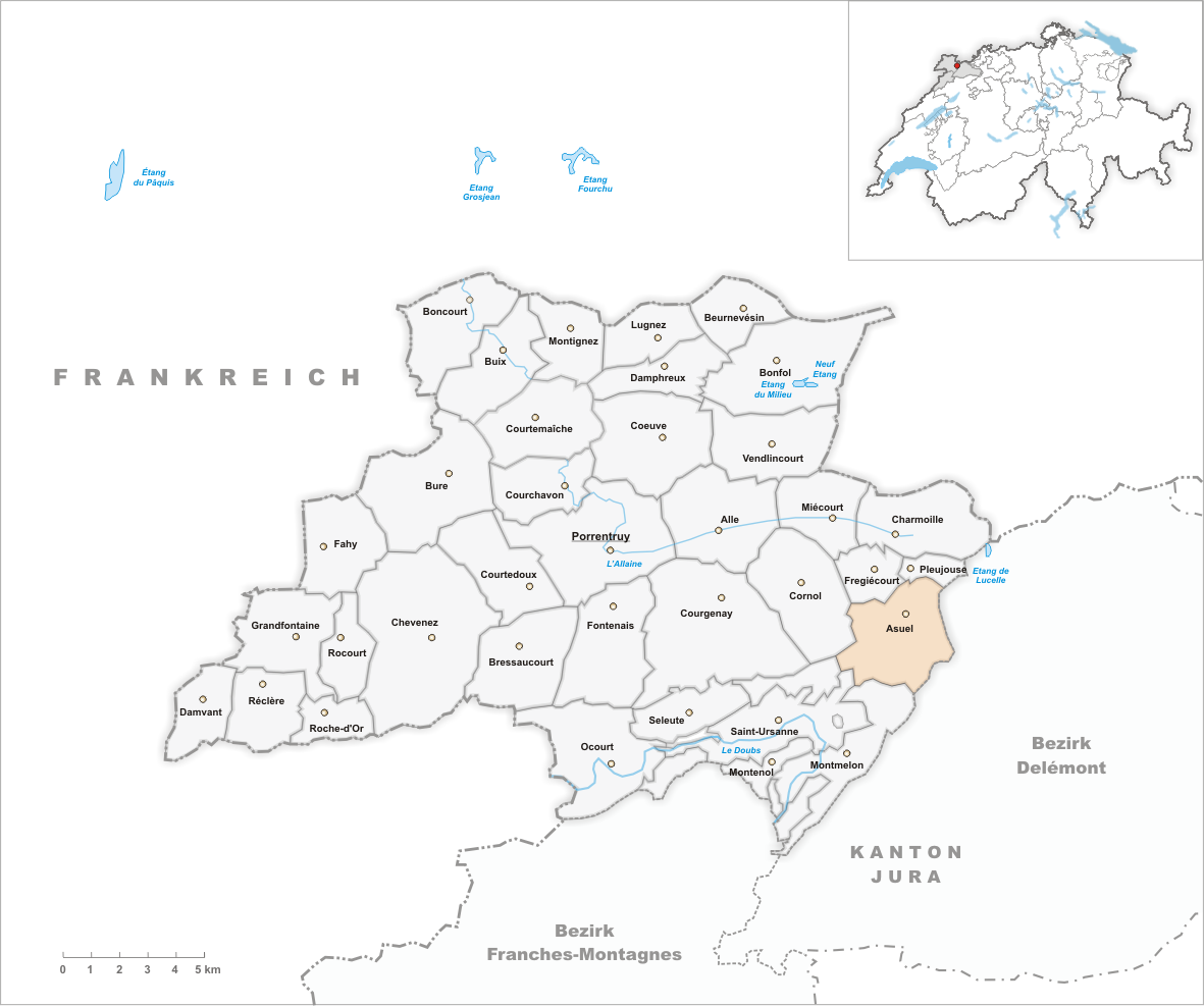 Municipality Asuel Artist: Tschubby